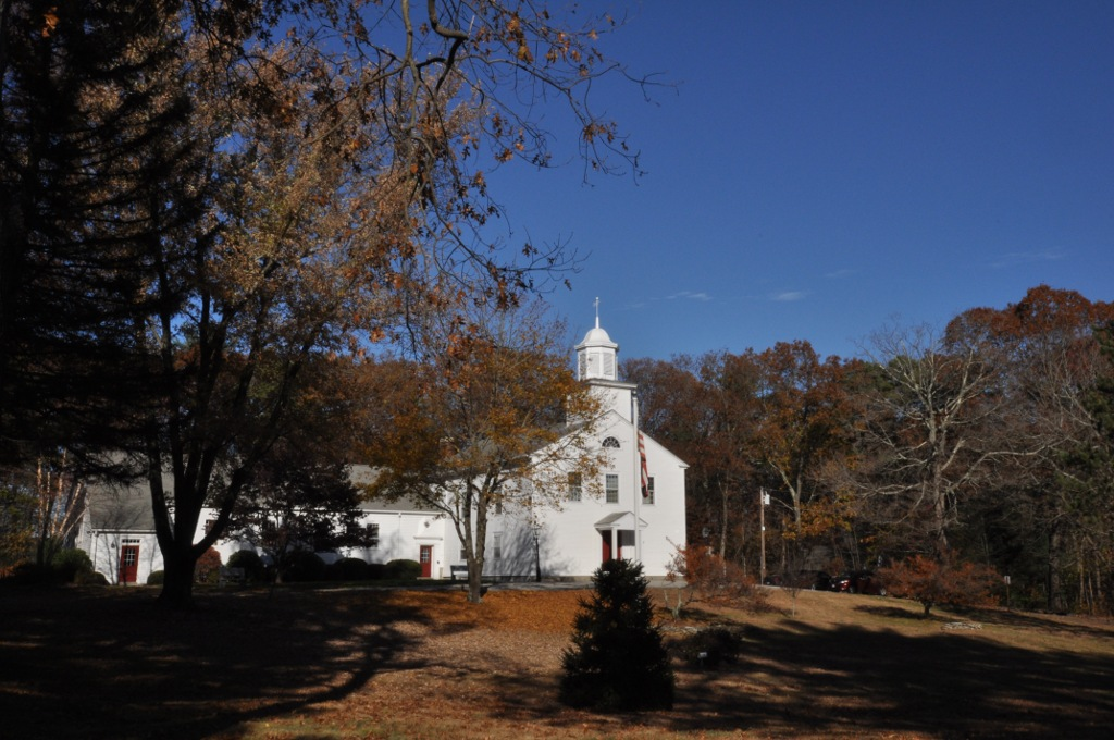 The Arnold Mills Church in Cumberland, Rhode Island. Part of the Arnold Mills Historic District.